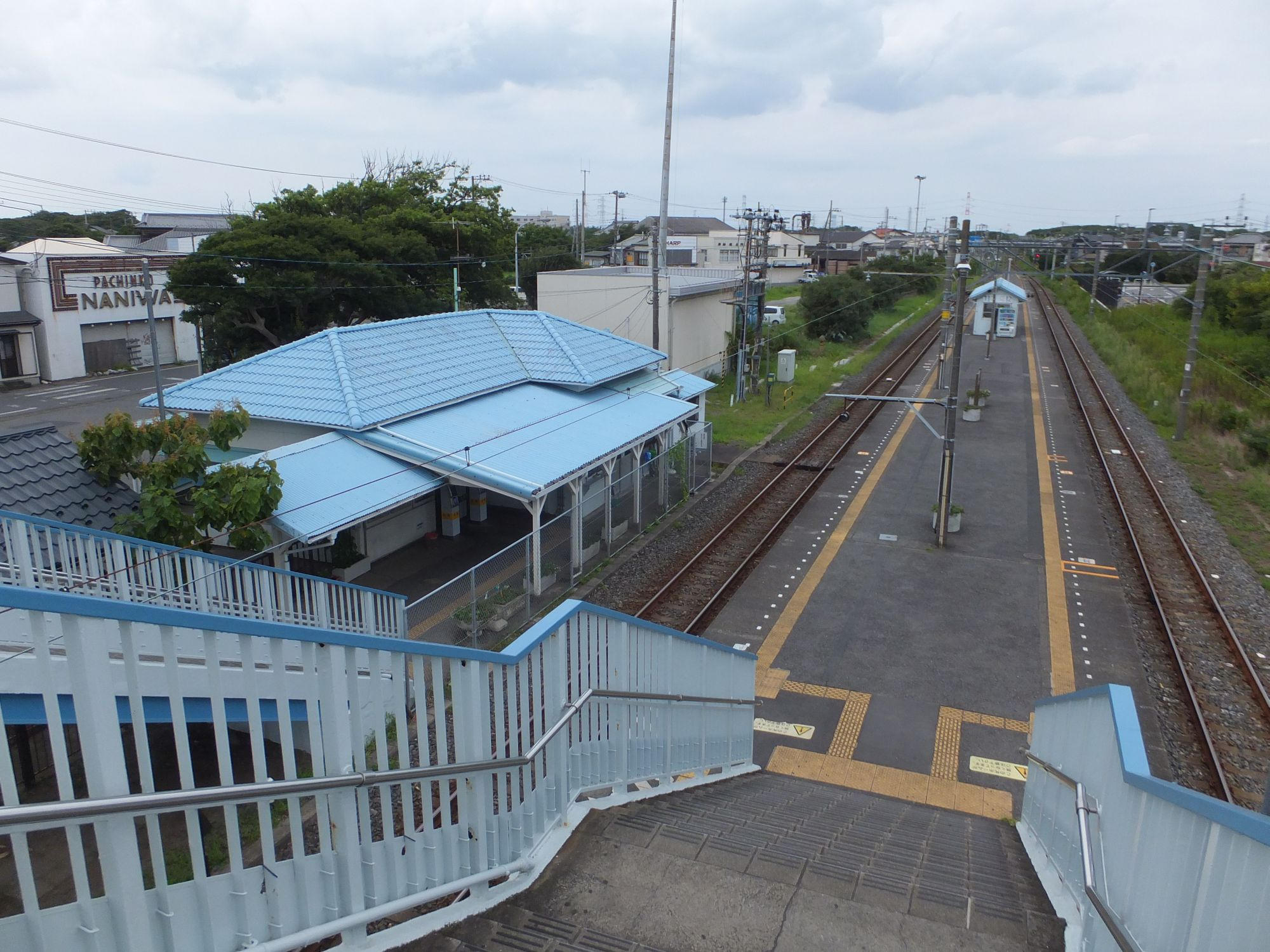 Ōnuki Station on the JR East's Uchibō Line in Futtsu, Chiba prefecture